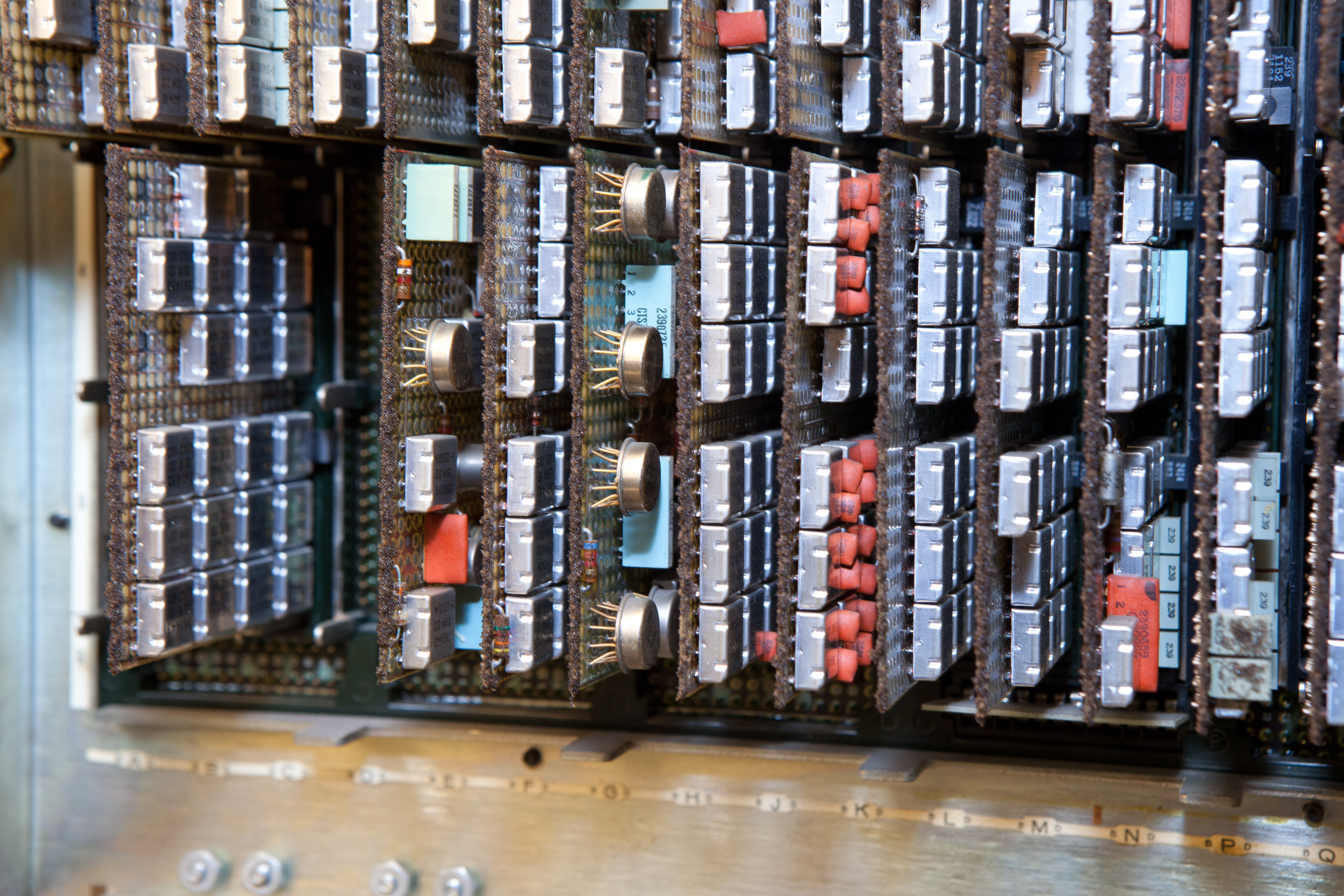 The Solid Logic technology modules in an IBM 129 Card Data Recorder